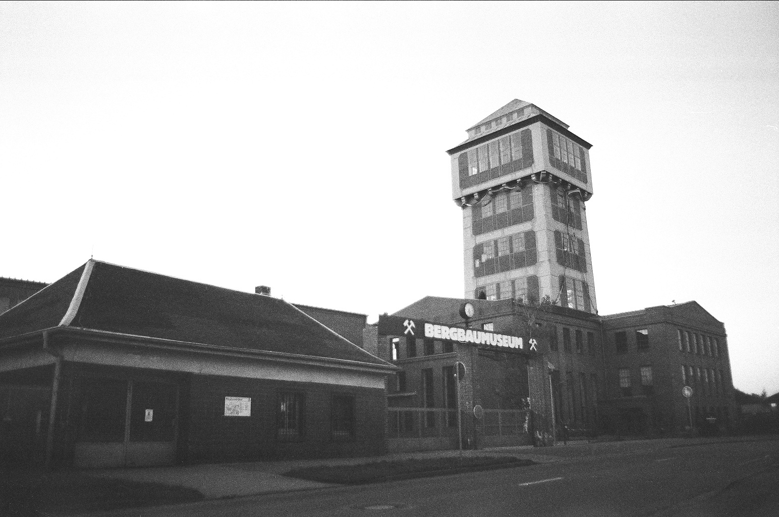 Former Karl-Liebknecht hard coal mine in Oelsnitz/Erzgebirge, Germany: coal production ceased in 1971, and since 1986 it is open as a mining museum.